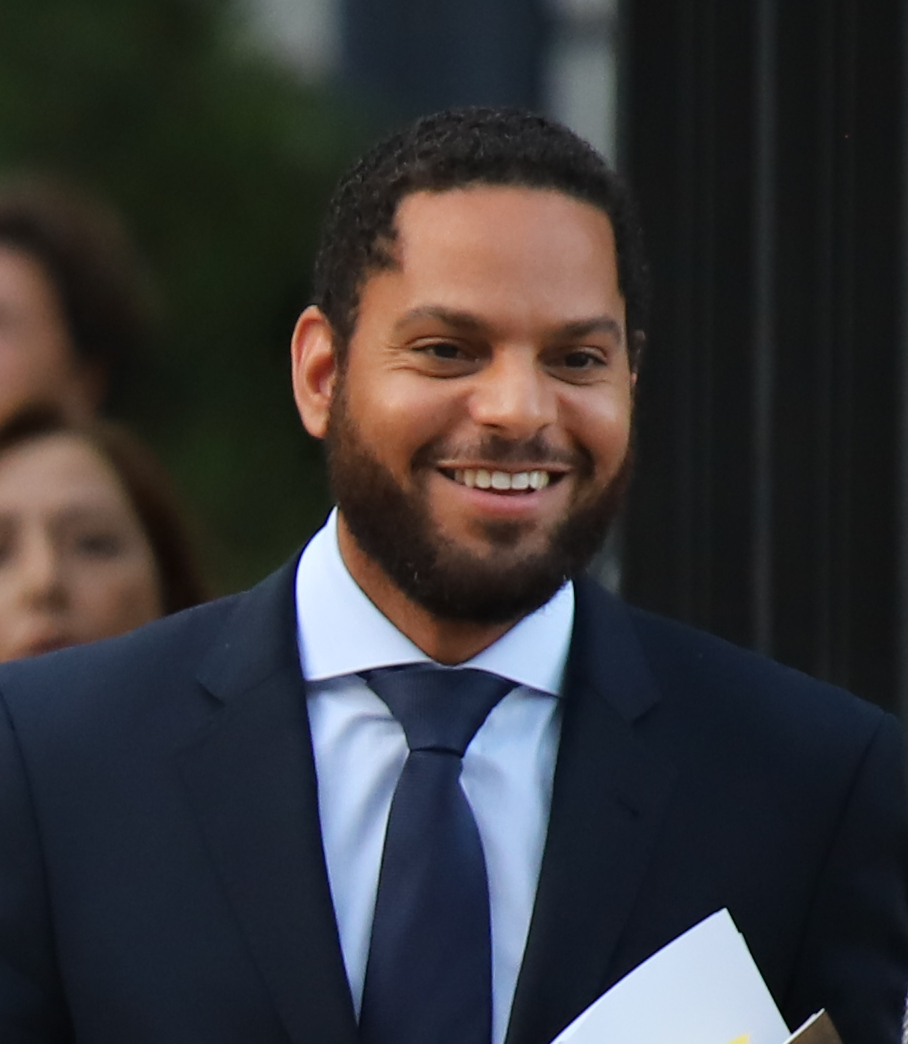 Ignacio Garriga leaves the congress building in Madrid.